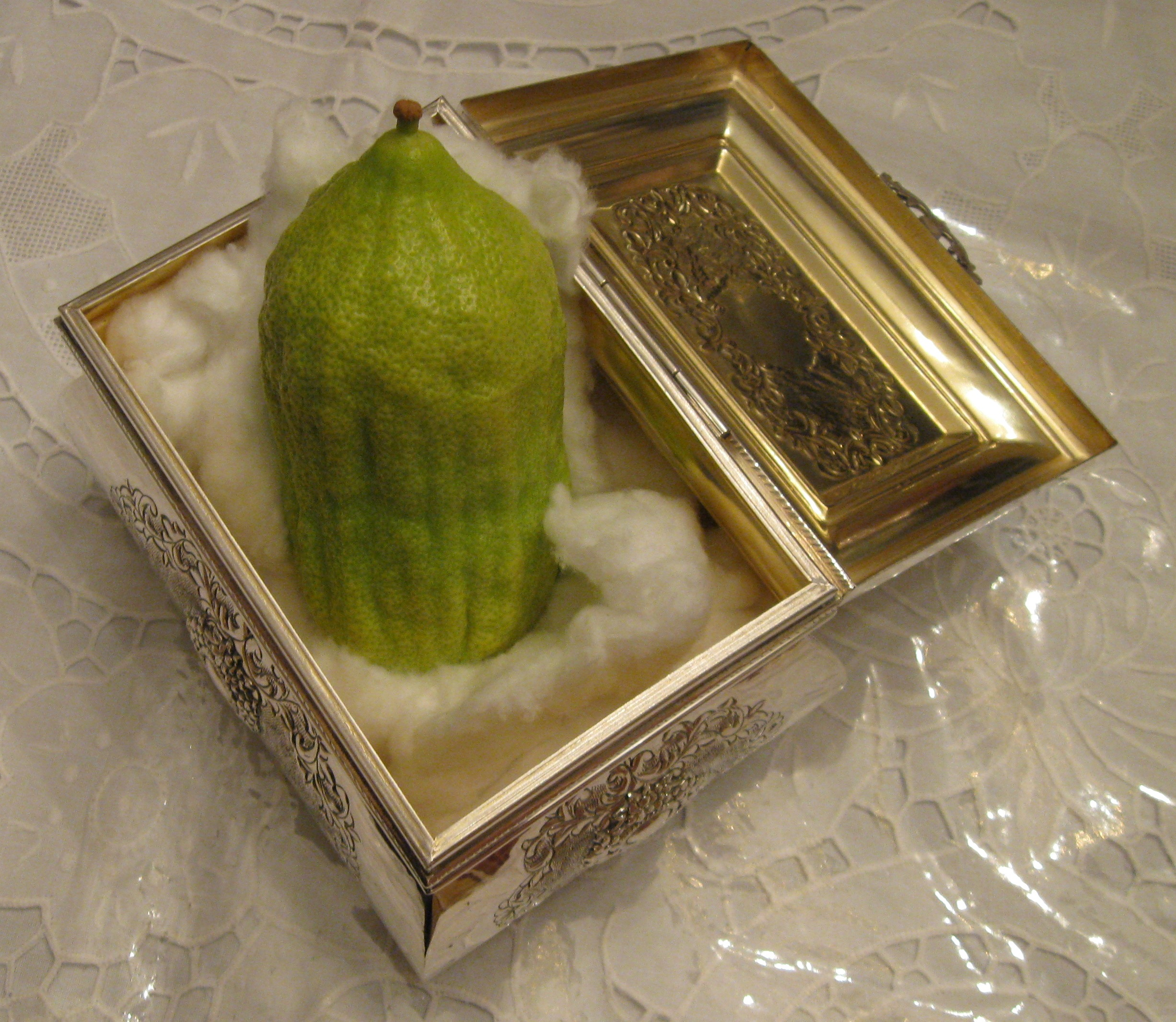 Etrog Pushka